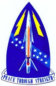 Emblem of the 579th Strategic Missile Squadron - Walker Air Force Base, New Mexico Source: United States Air Force